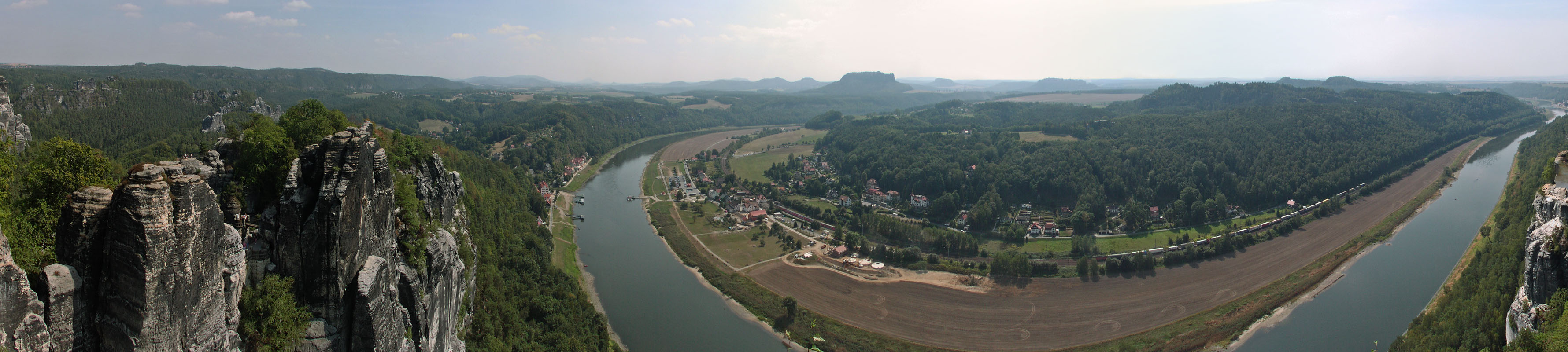 panoramic view from Bastei over the Elbe valley